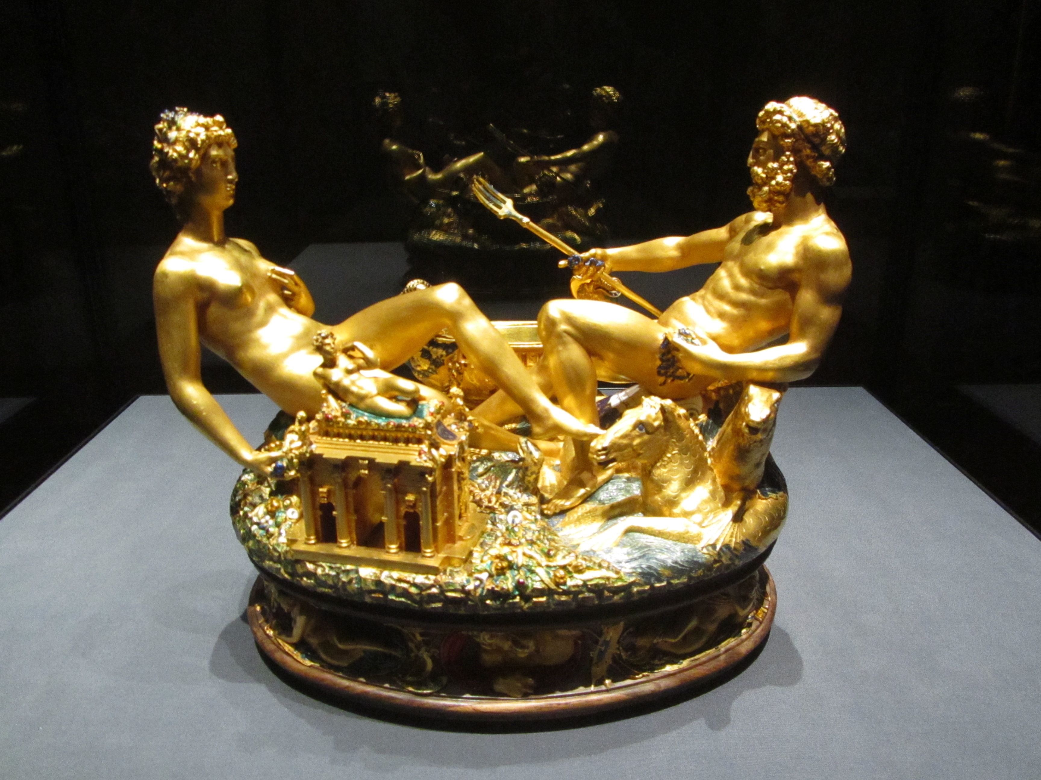 Saliera von Benvenuto Cellini (Paris, 1540–1543) Foto from the front with little Temple for the pepper